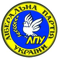 Logo of the Liberal Party of Ukraine